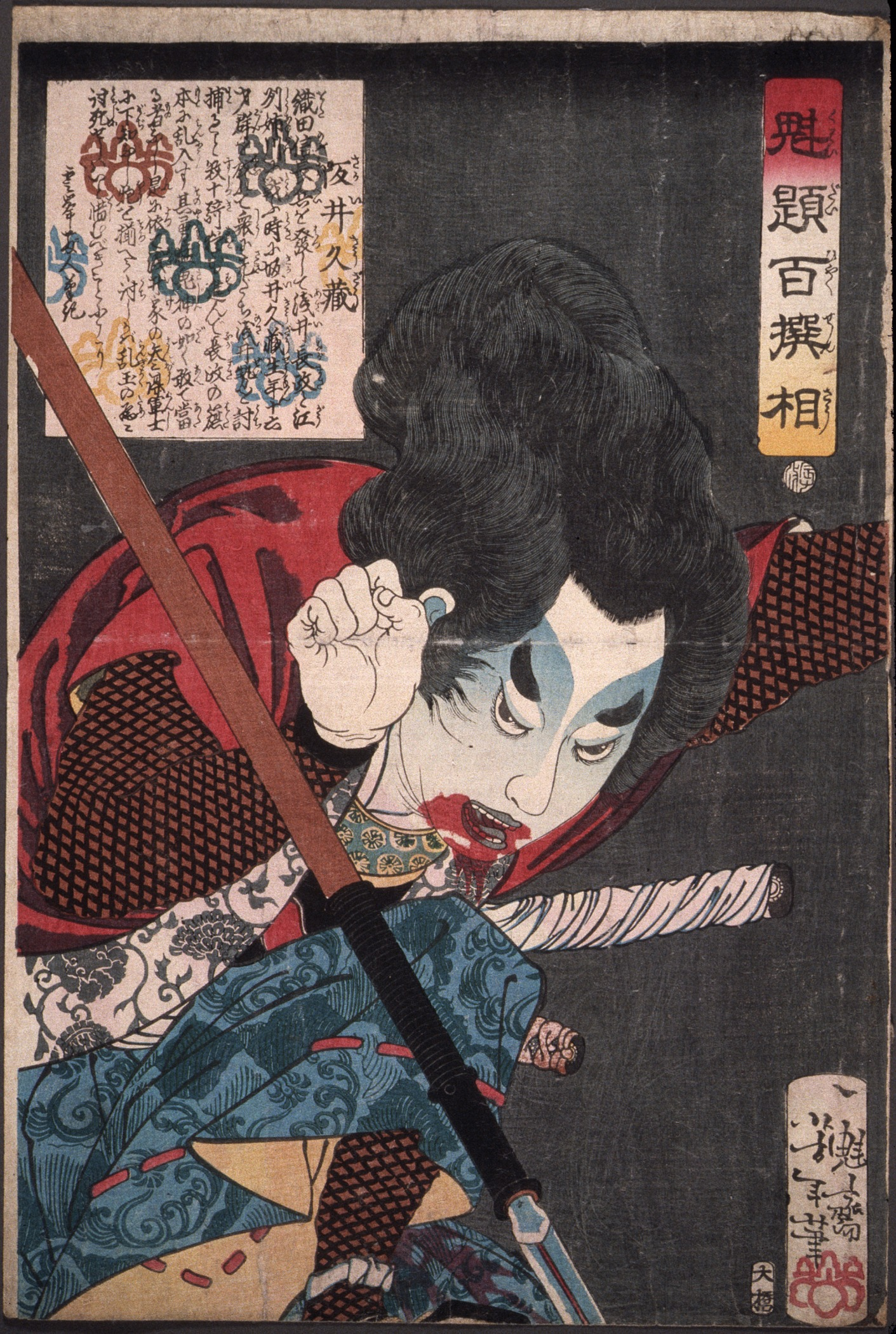 Japan, 10/1868 Series: One Hundred Warriors in Battle Selected by Yoshitoshi Prints; woodcuts Color woodblock print Herbert R. Cole Collection (M.84.31.215) Japanese Art